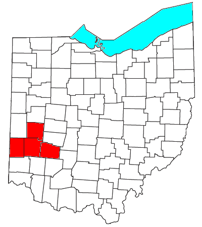 Locator map of the Dayton Metropolitan Statistical Area in the western part of the U.S. state of Ohio.